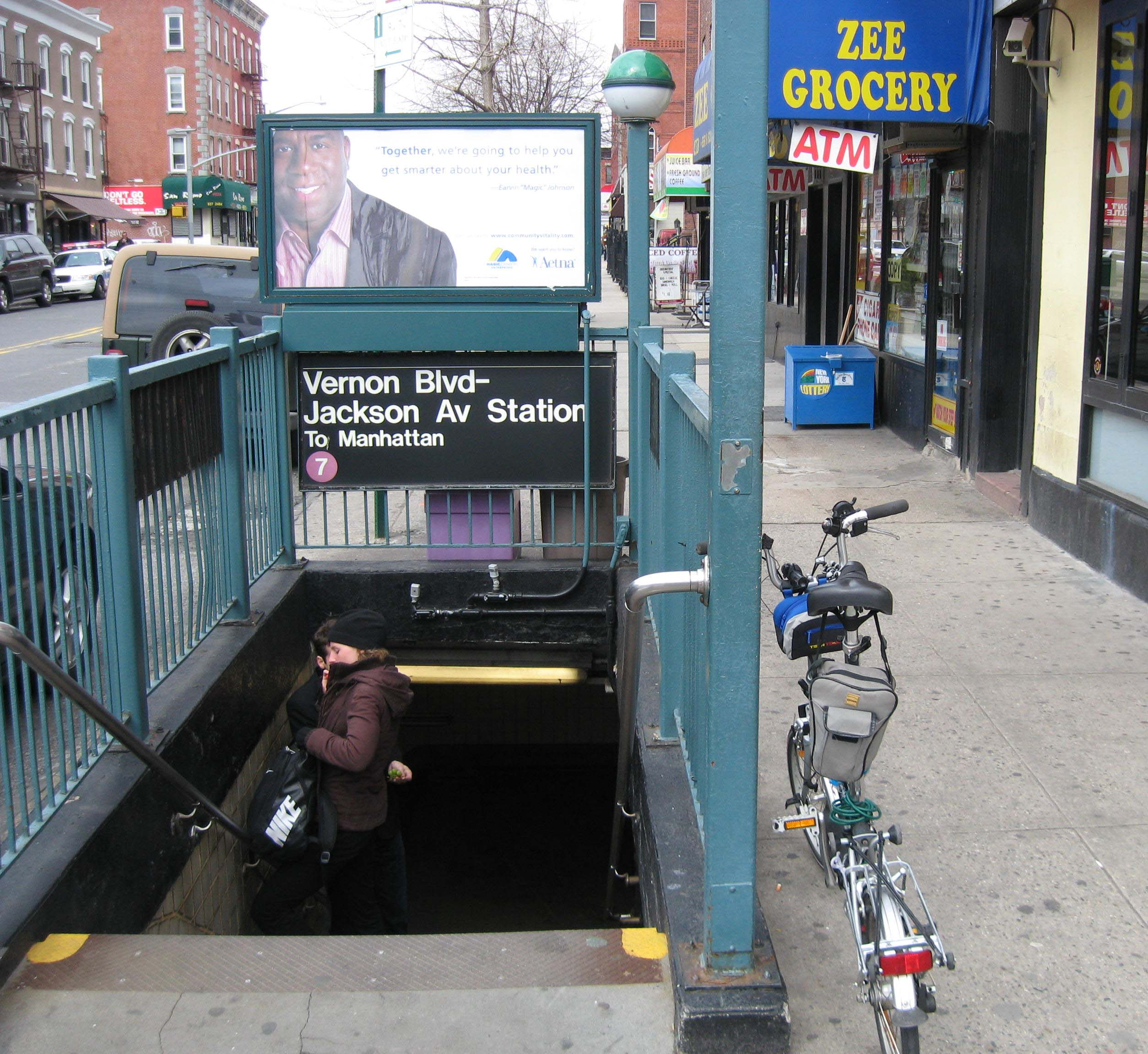 Vernon Boulevard–Jackson Avenue (IRT Flushing Line) southbound (westbound) stair on Vernon Boulevard. I faced north along Vernon Avenue from 50th Avenue to take this picture on a cloudy early afternoon in early spring.